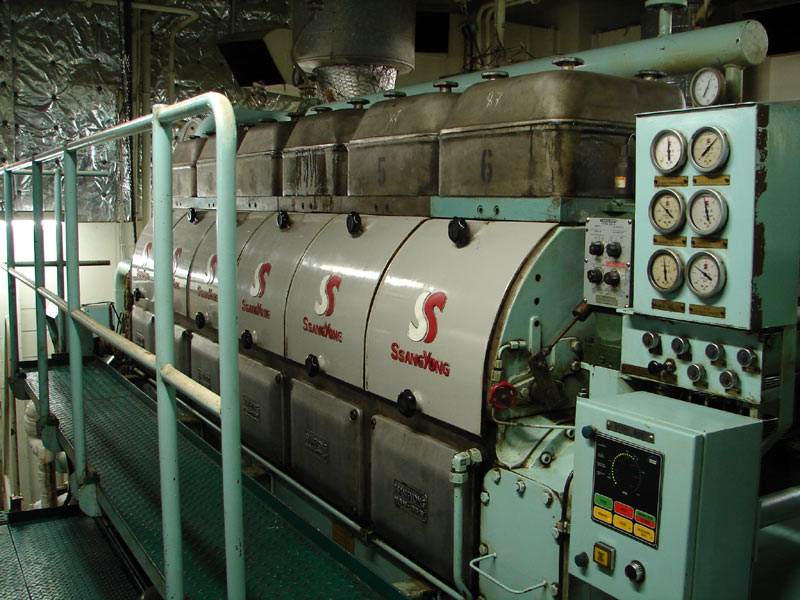 A 1150 kW MAN B&W Diesel generator aboard the Algarve oil tanker